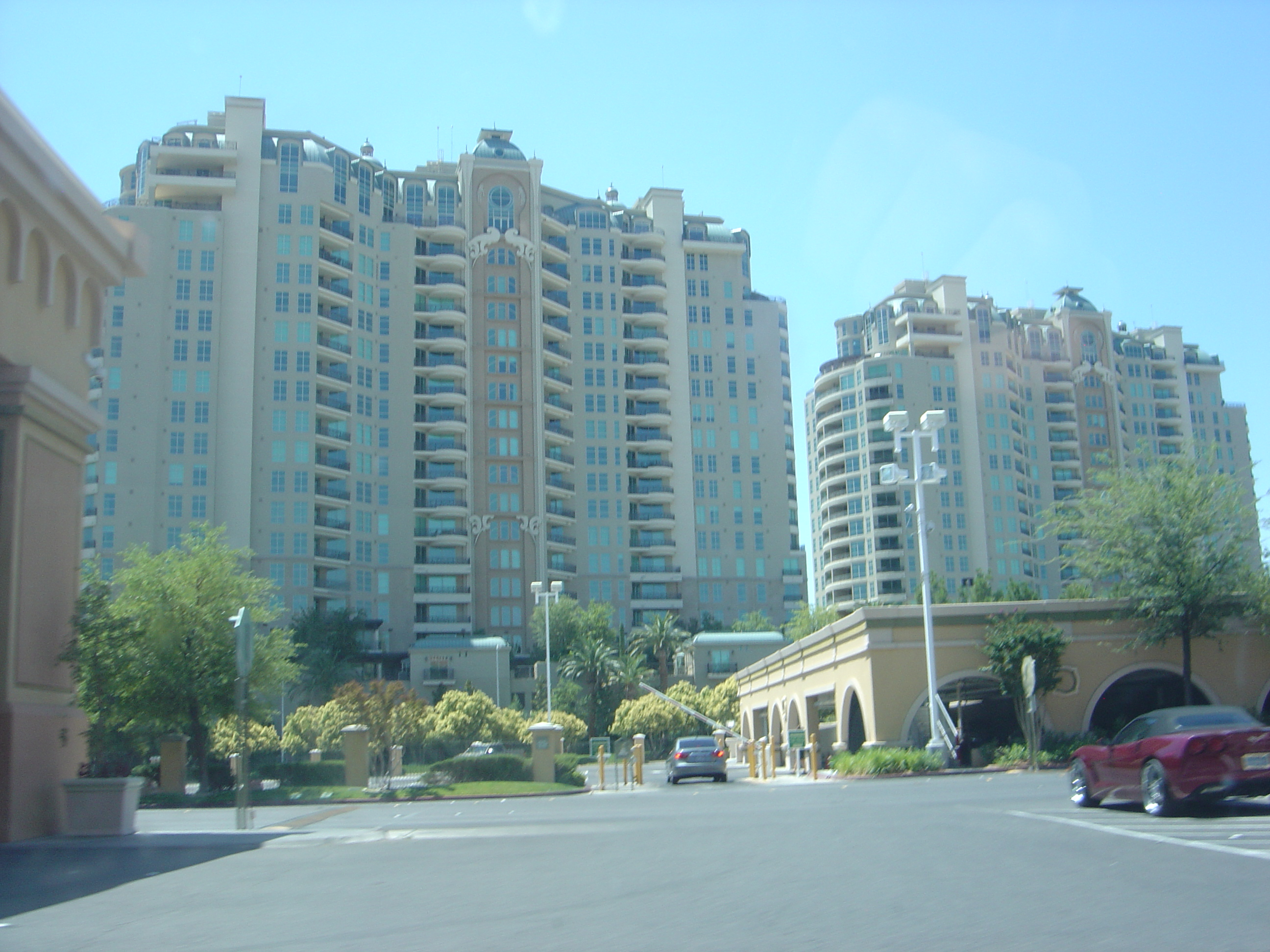 One Queensridge Place condominiums in Summerlin, Nevada.